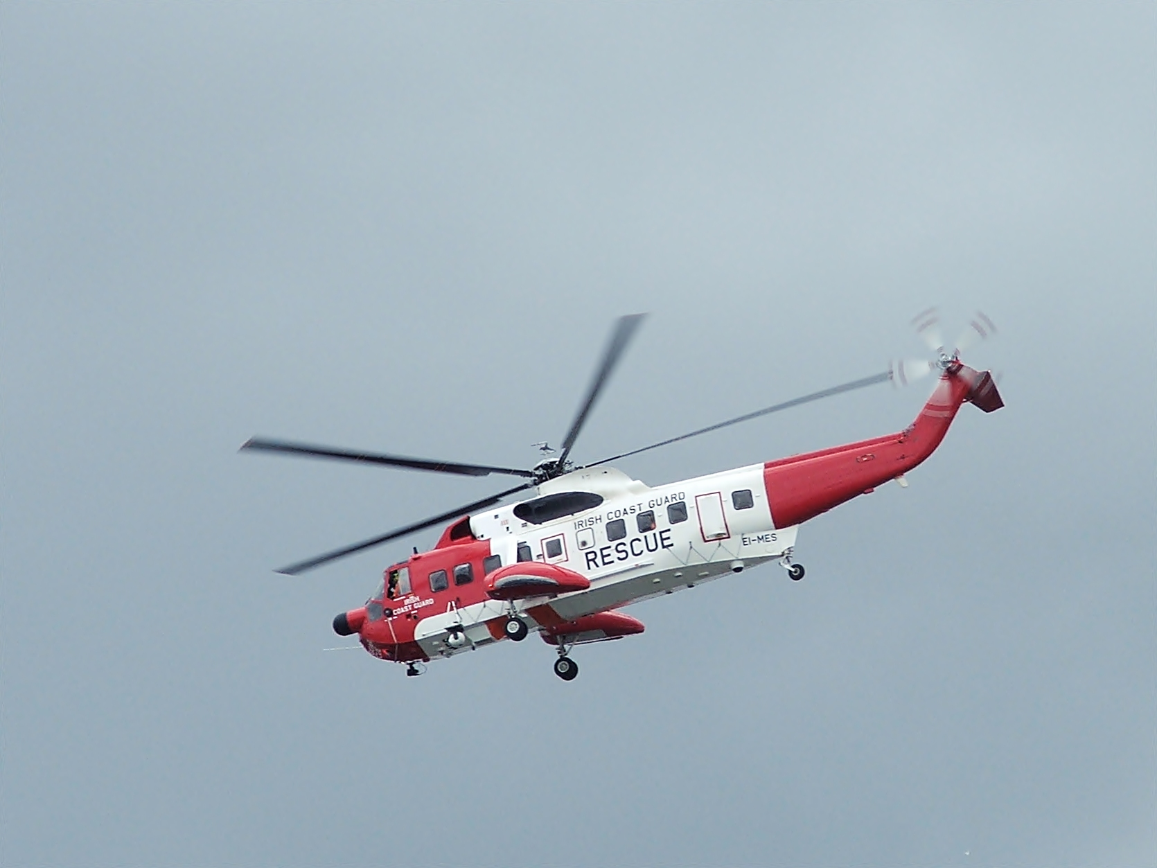 Irish Coast Guard Sikorsky S.61N Helicopter flying over O'Connell Street, Dublin, Ireland.